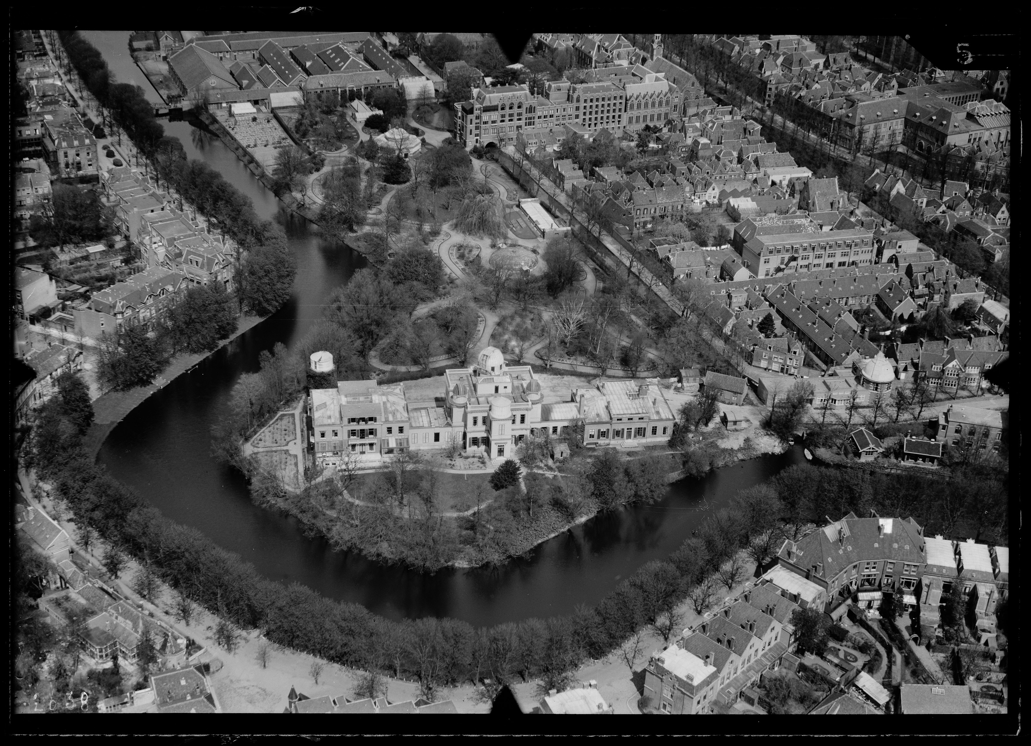 Aerial photograph of Leiden, The Netherlands. Hortus botanicus, Observatory.